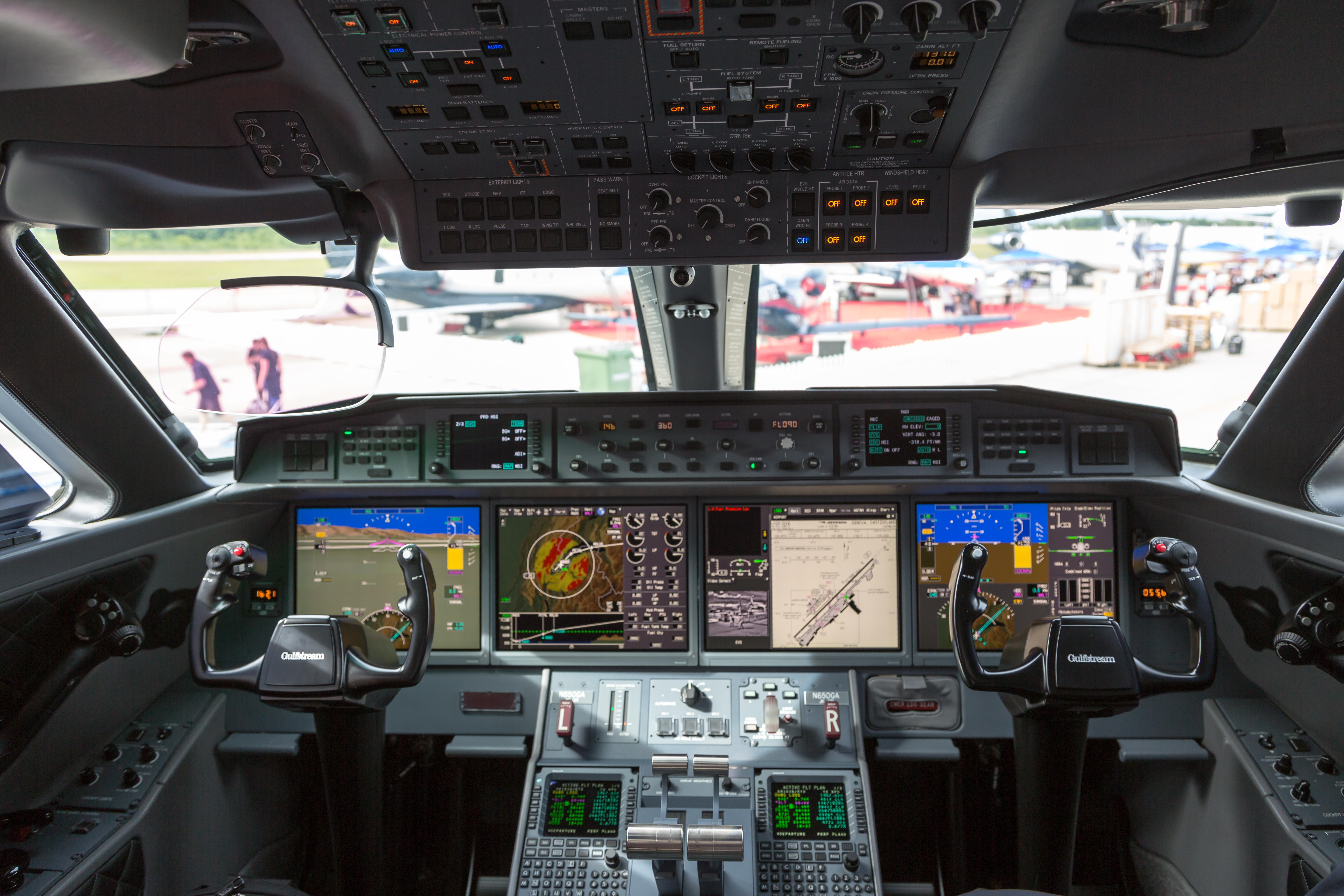 Gulfstream G650ER, EBACE 2018